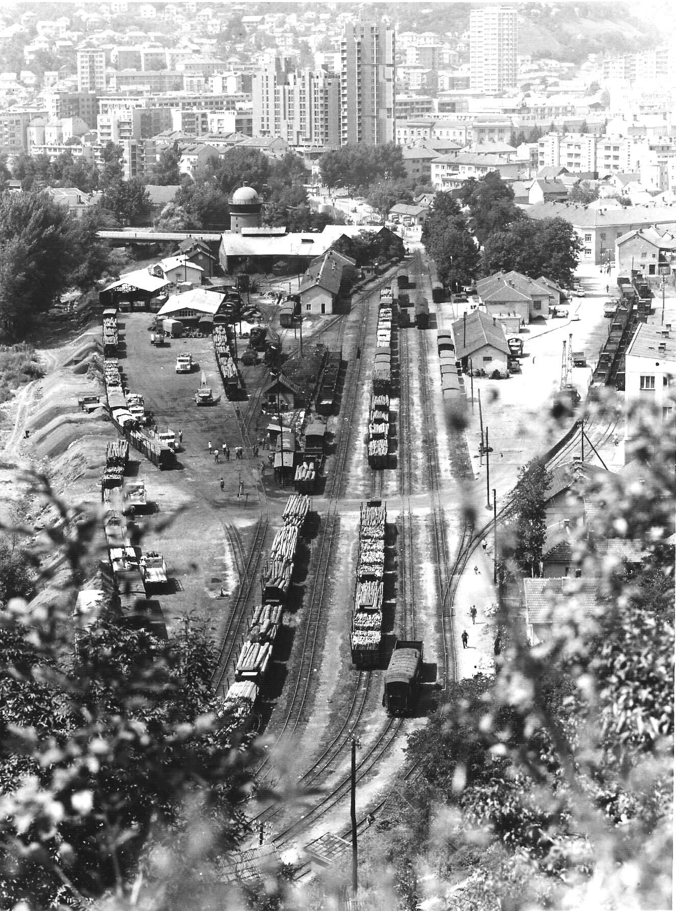 Narrow gauge train station Titovo Uzice